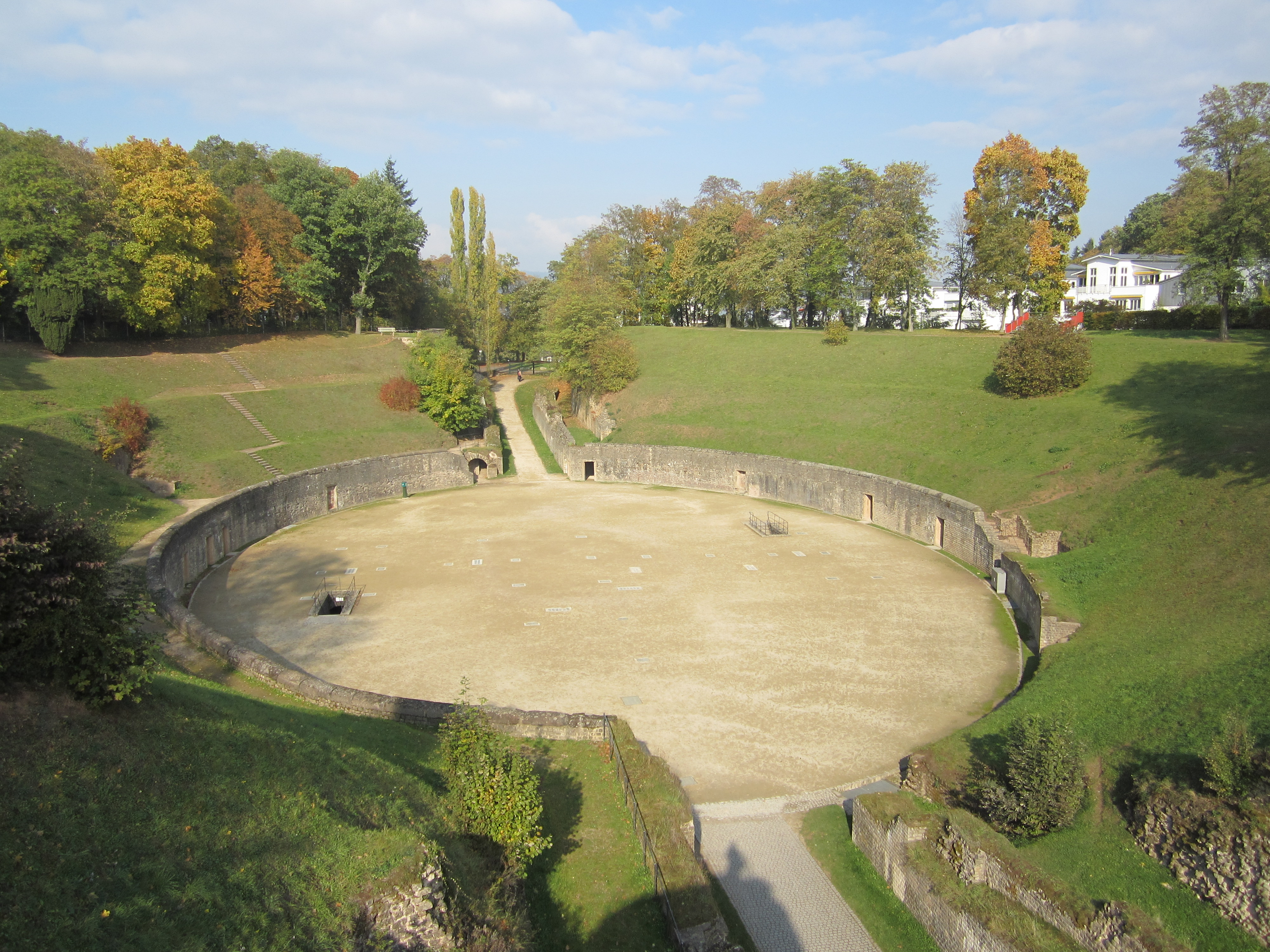 The Roman amphitheatre in Trier viewed from the south